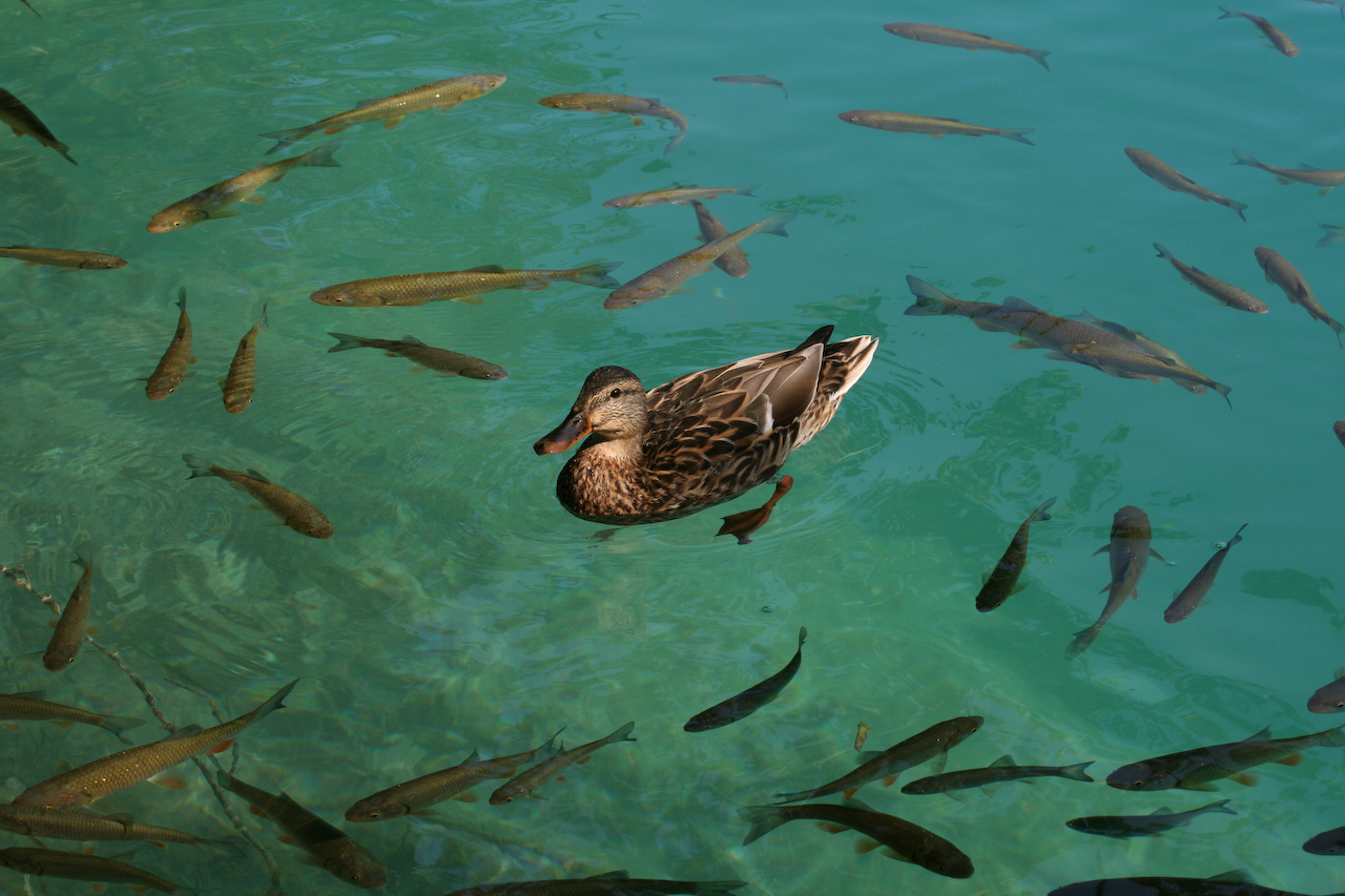 Duck and trouts do not mind each other's company.